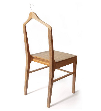 Yet another cool design from our image collection for April at